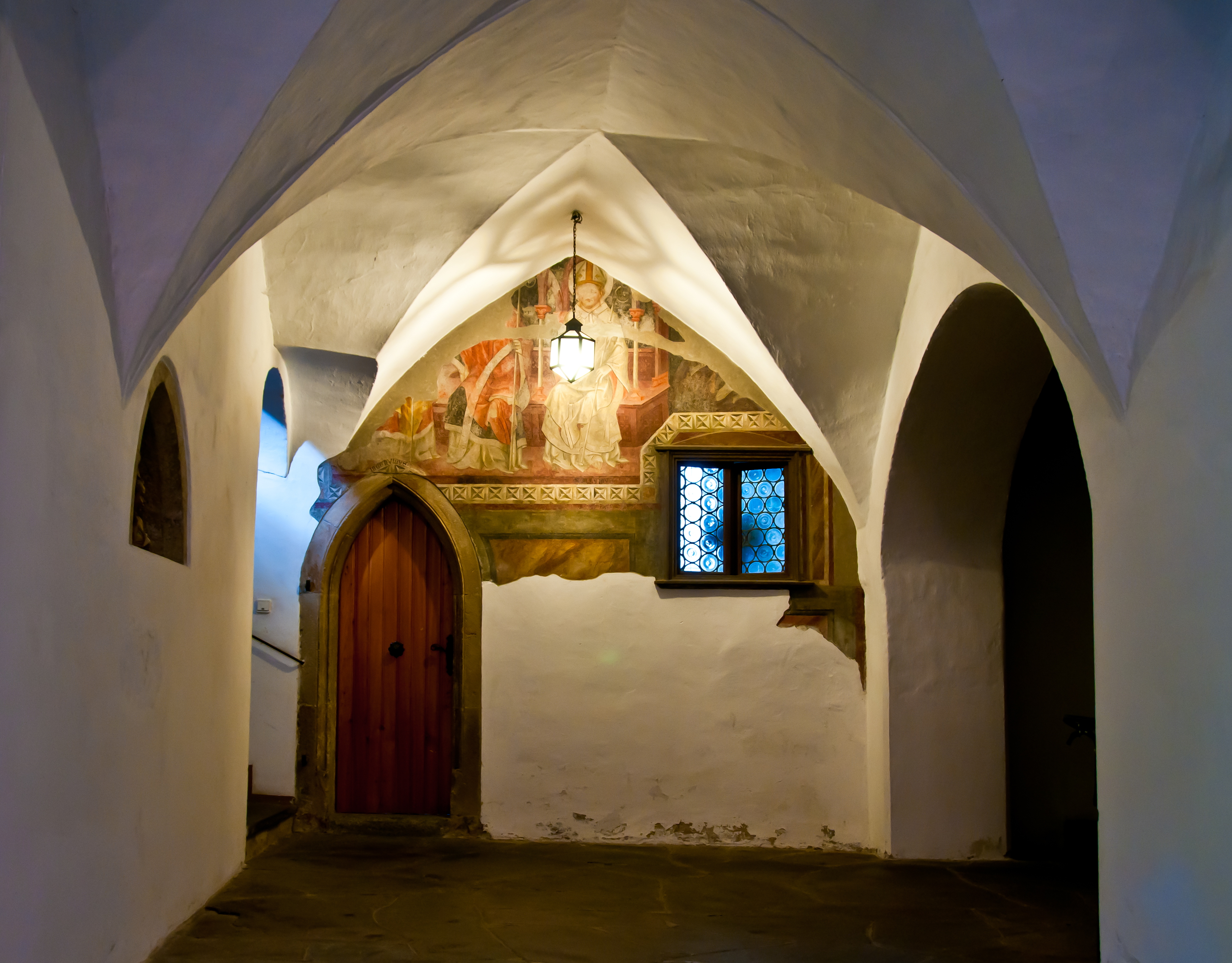 San Ingenuino chapel, Franciscan church Bolzano / Bozen